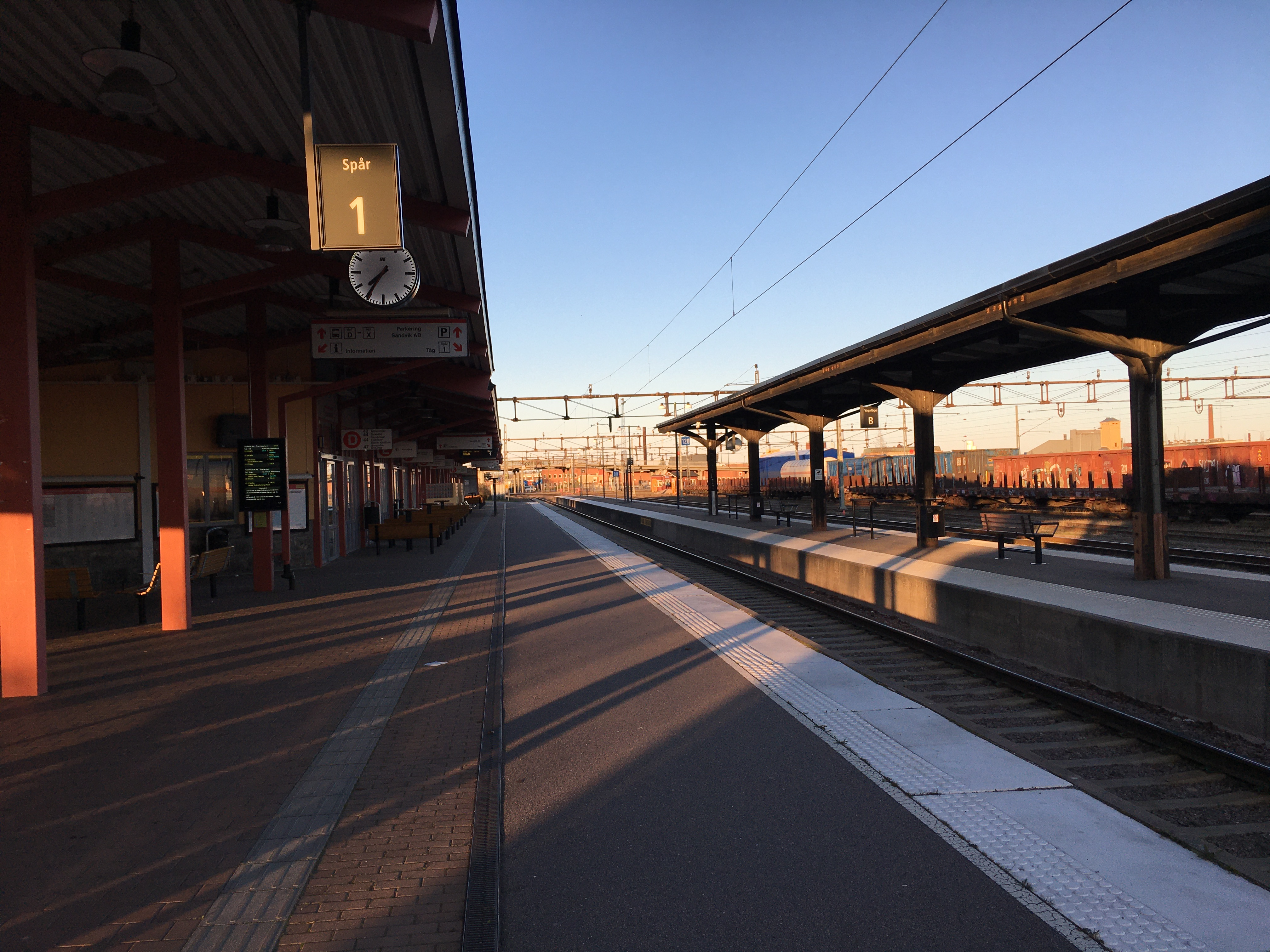 Sandviken travel center in the evening. Photographed to the east.